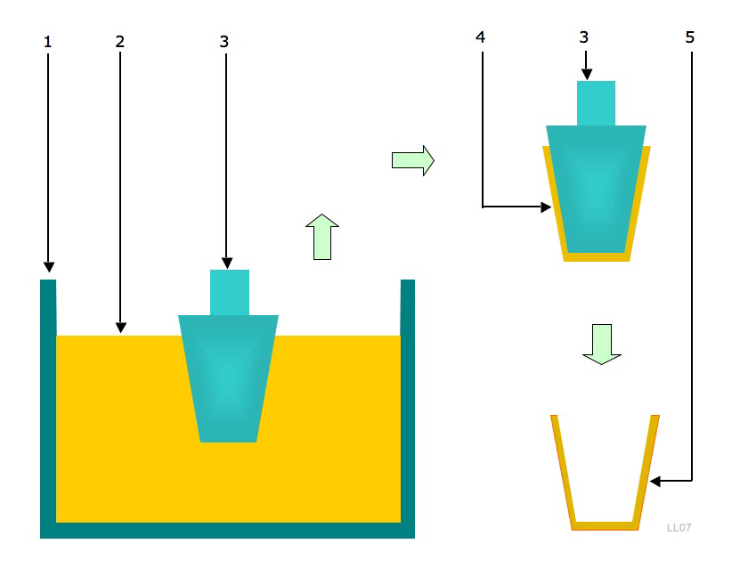 Dip_moulding. Visualization of the dip mould process. April 2007. Laurens van Lieshout.